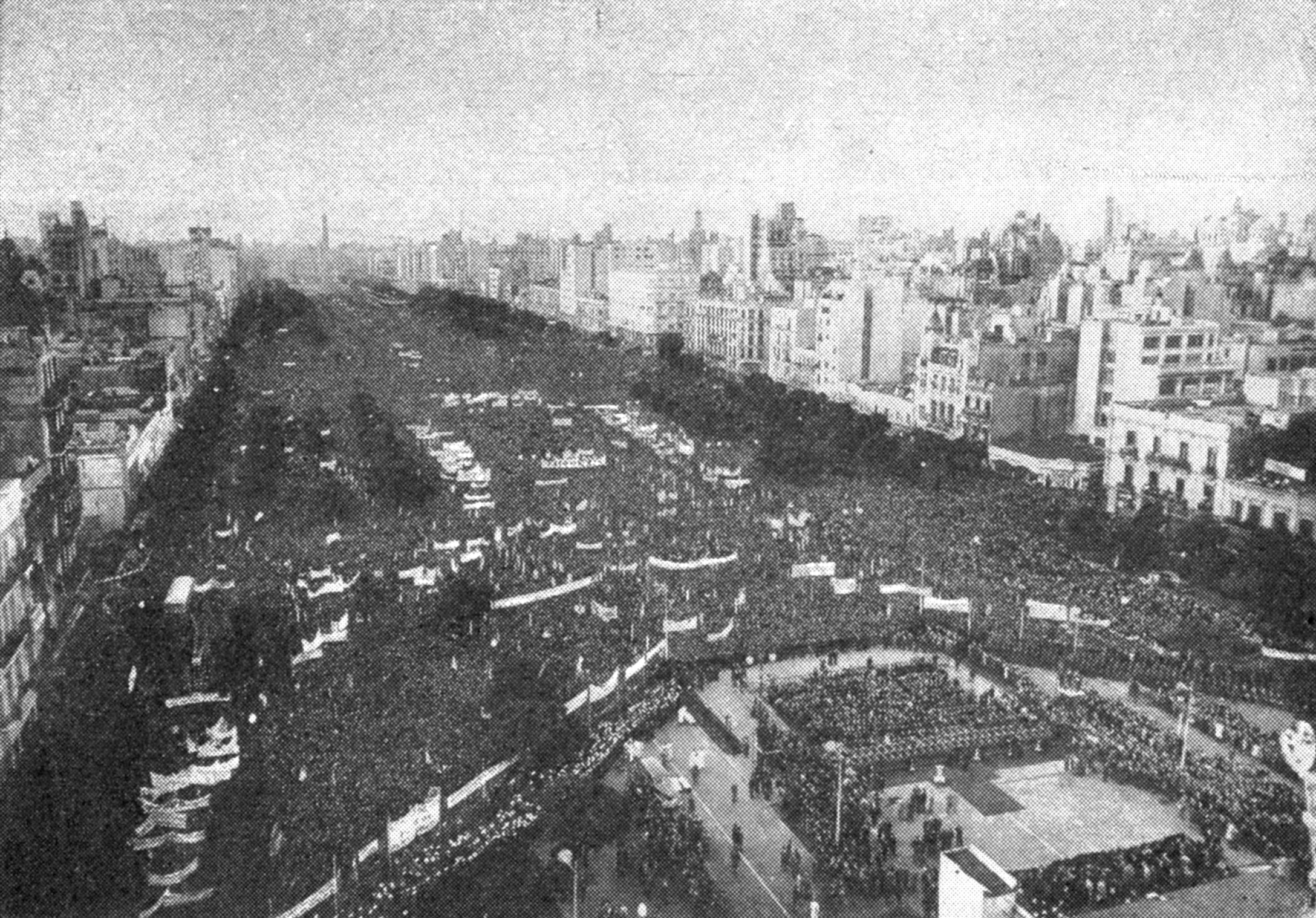 Demonstration during Perón's first government in reference to the International Workers Day.